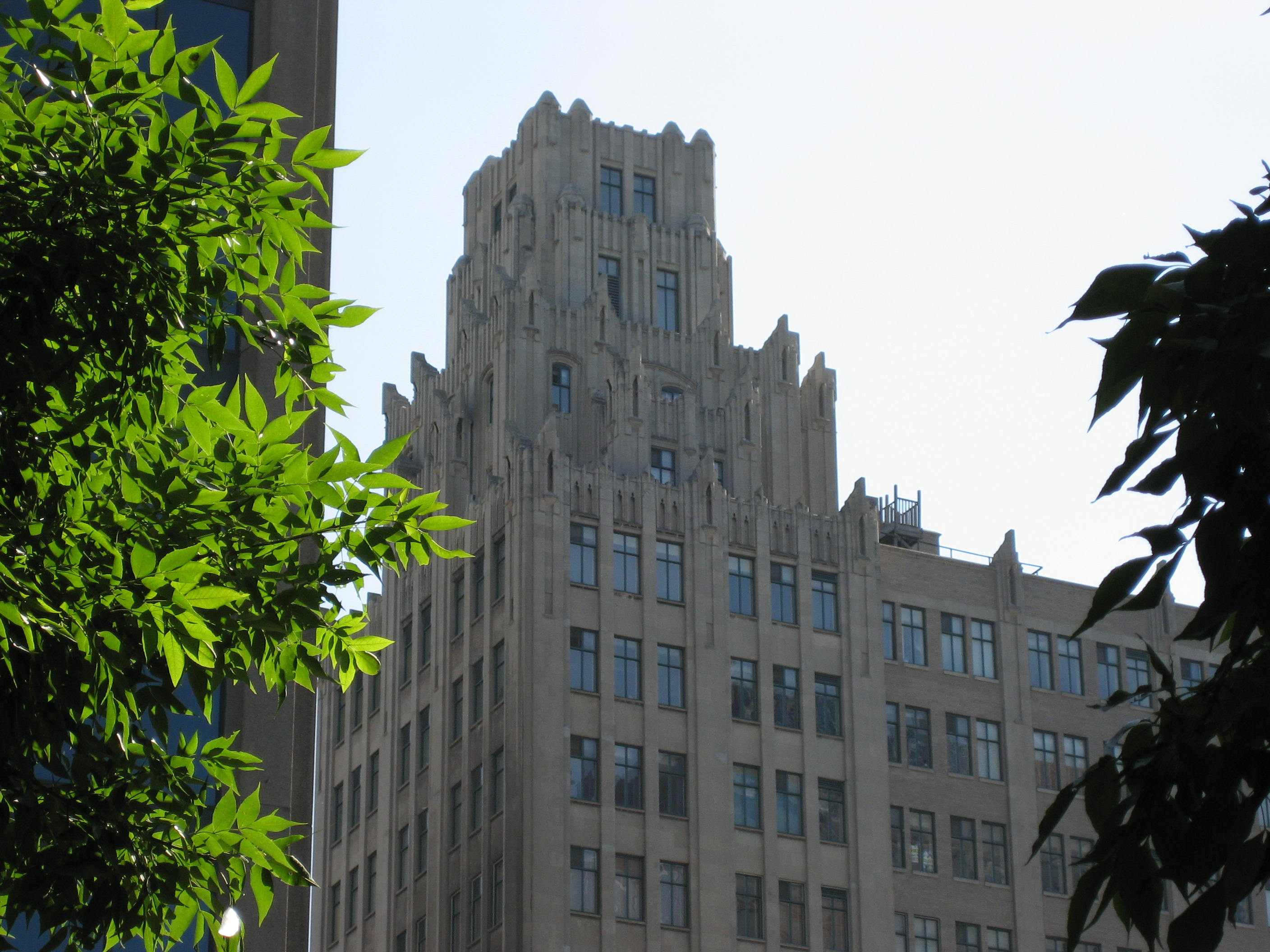 Pigott Building (Condos), James Street South, downtown Hamilton, Ontario